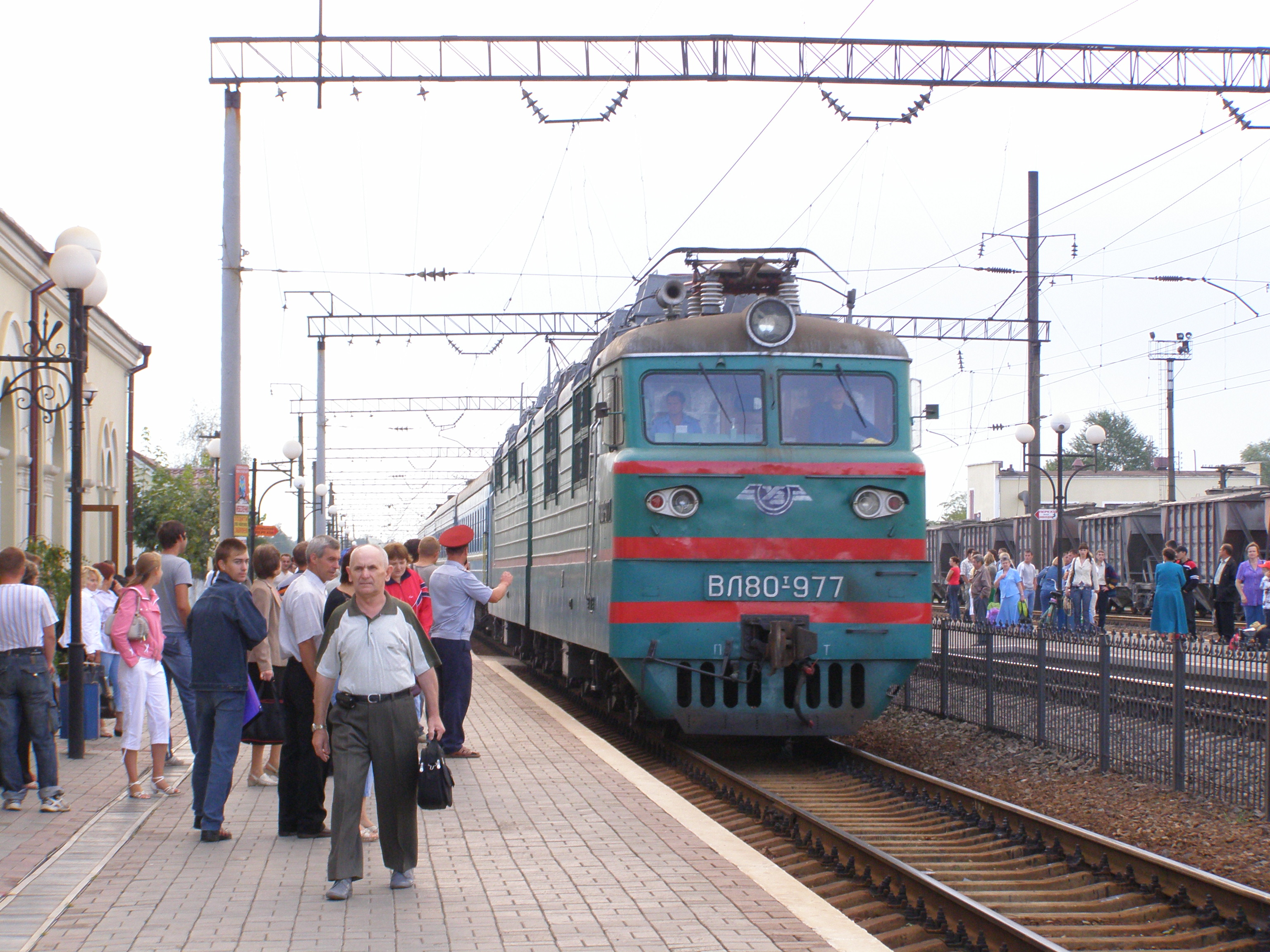 Brody, train station